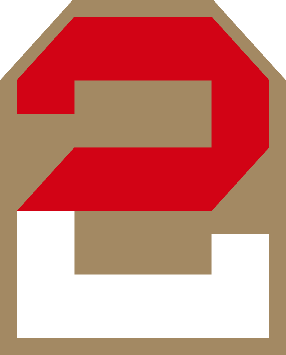 US Army 2nd Army Shoulder Sleeve Insignia prior to 1950s